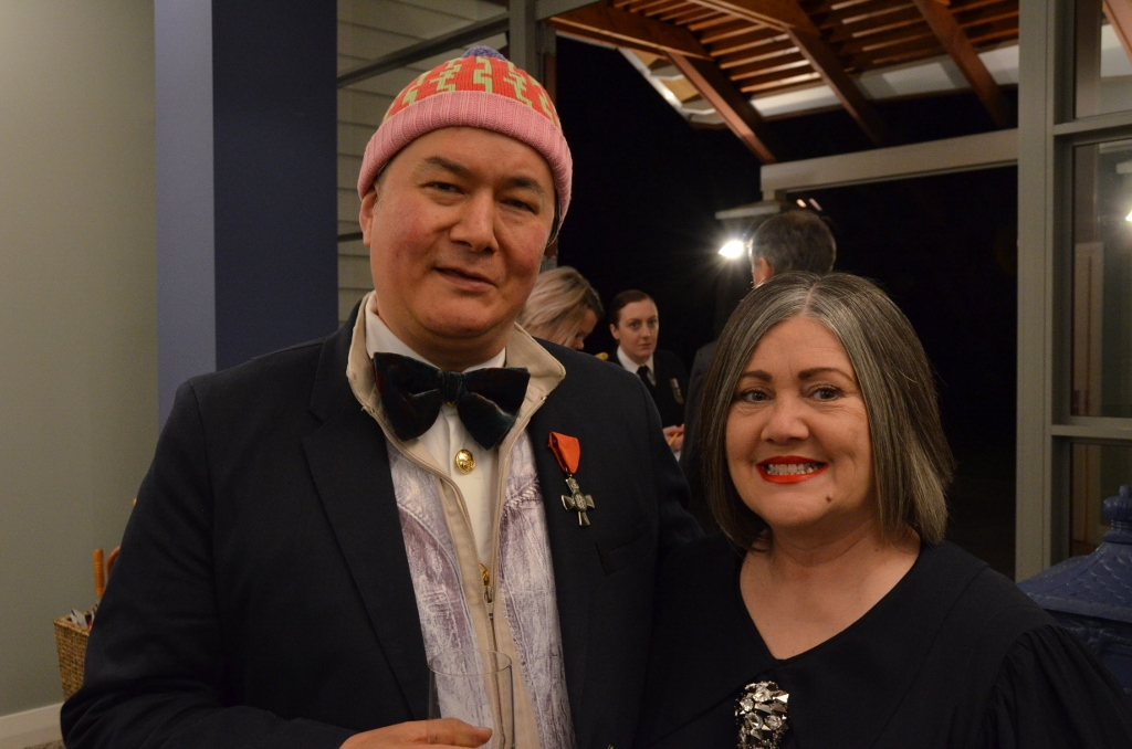 Francis Hooper, MNZM, and Denise L'Estrange Corbet at an investiture dinner at Government House, Auckland, on 21 August 2014